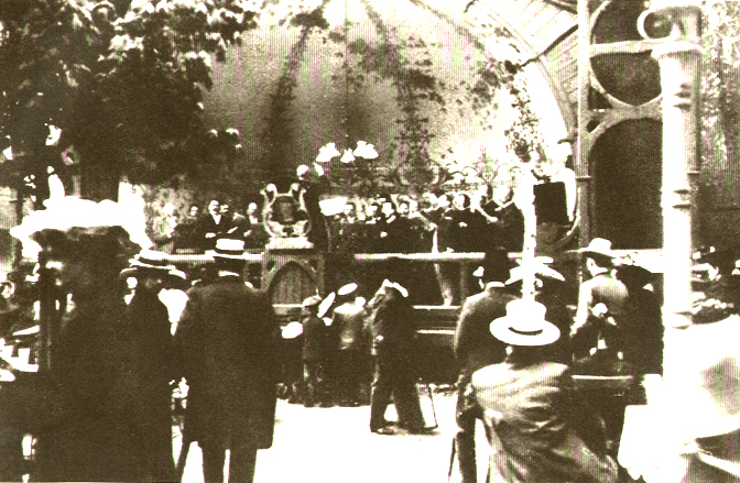 Torun, Poland, restaurant-theatre 'Victoria' 1903